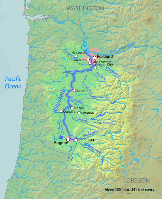 Map of the Willamette River and its drainage basin in northwestern Oregon, USA.